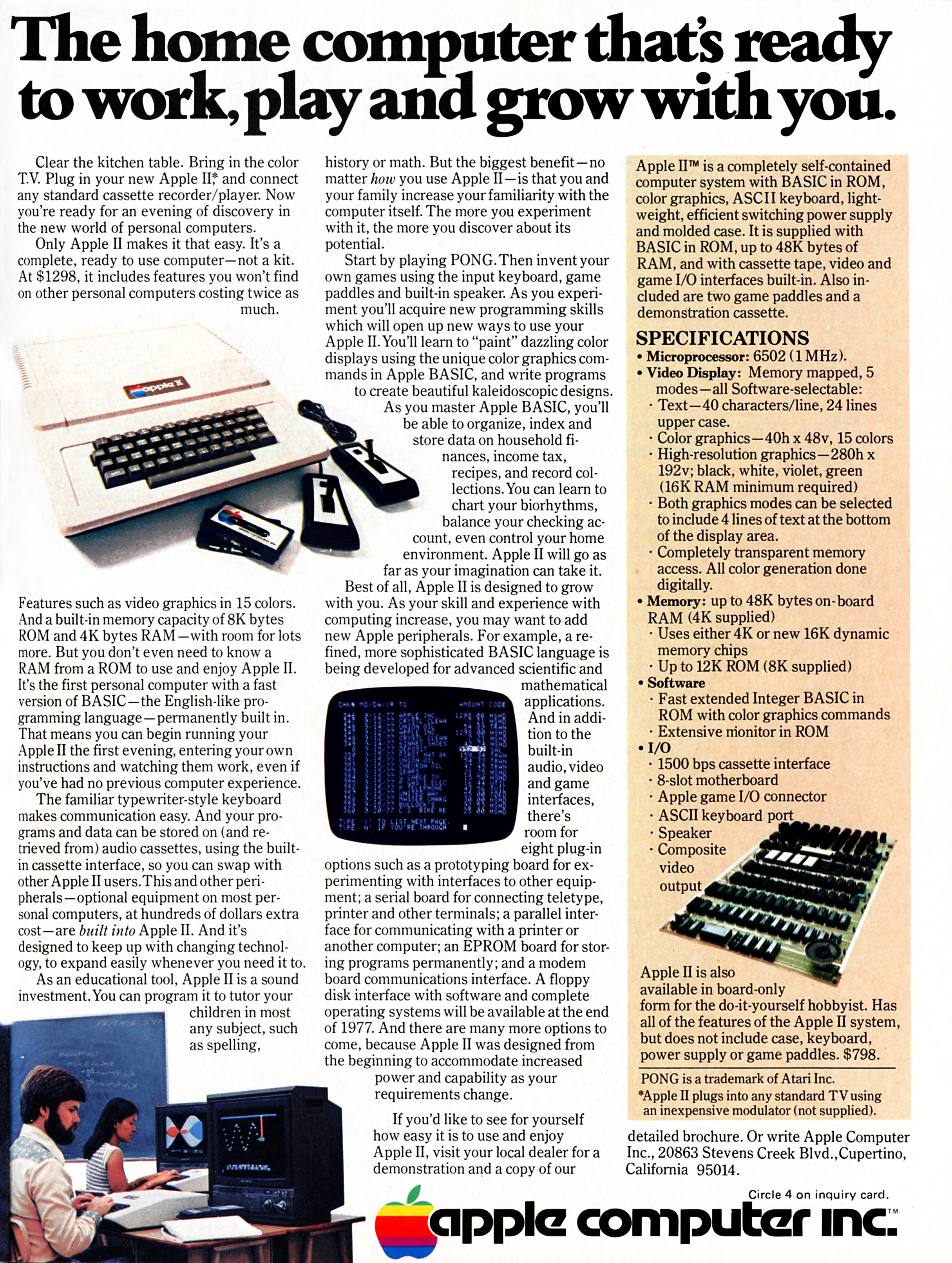 An Apple II advertisement from the December 1977 issue of Byte magazine, pages 16 and 17. The second page was described the features of the Apple II. The ad originally ran in May 1977 and was updated that December.